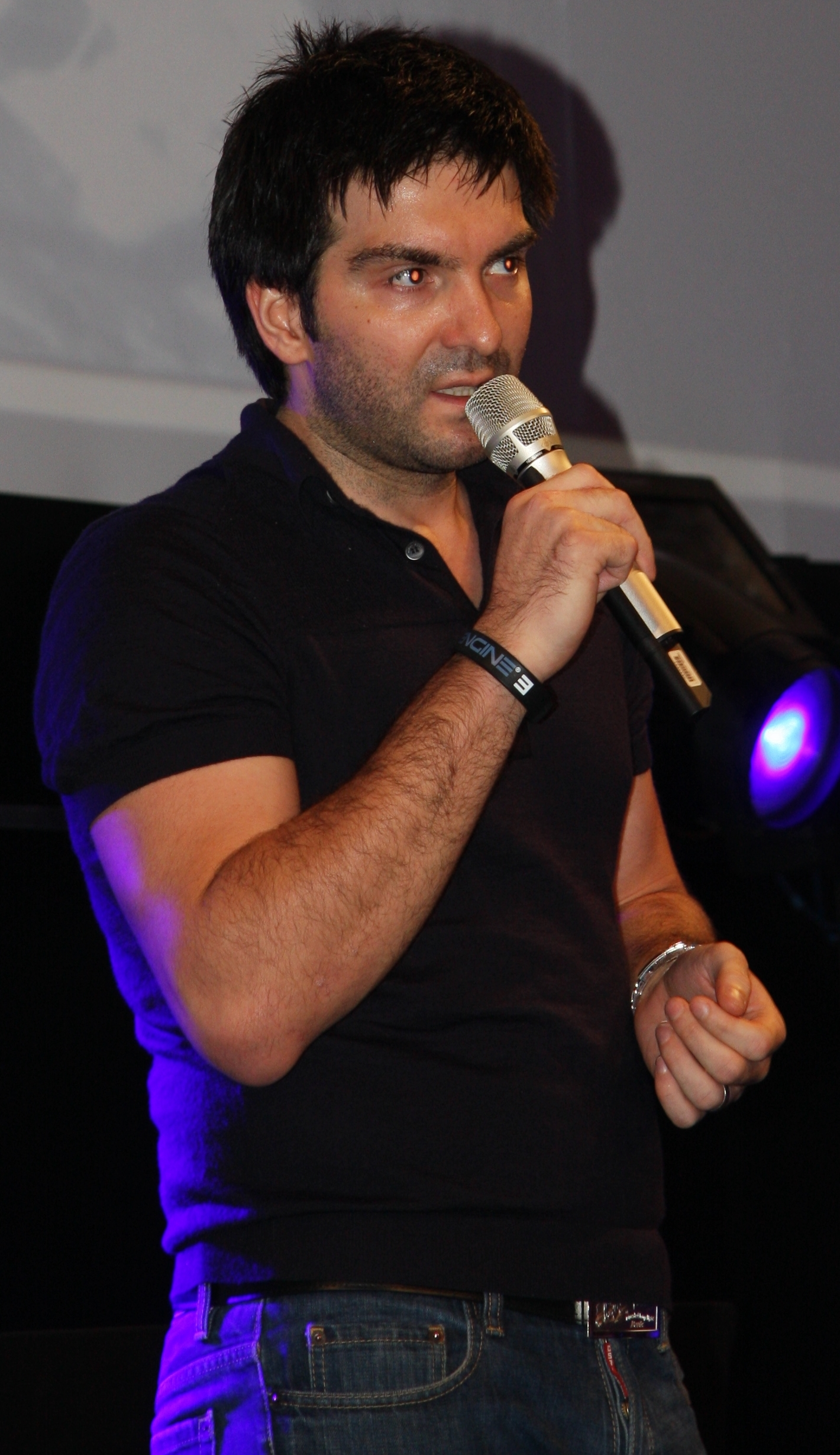 Cevat Yerli co-founder and President of Crytek at the Gamescom 2009